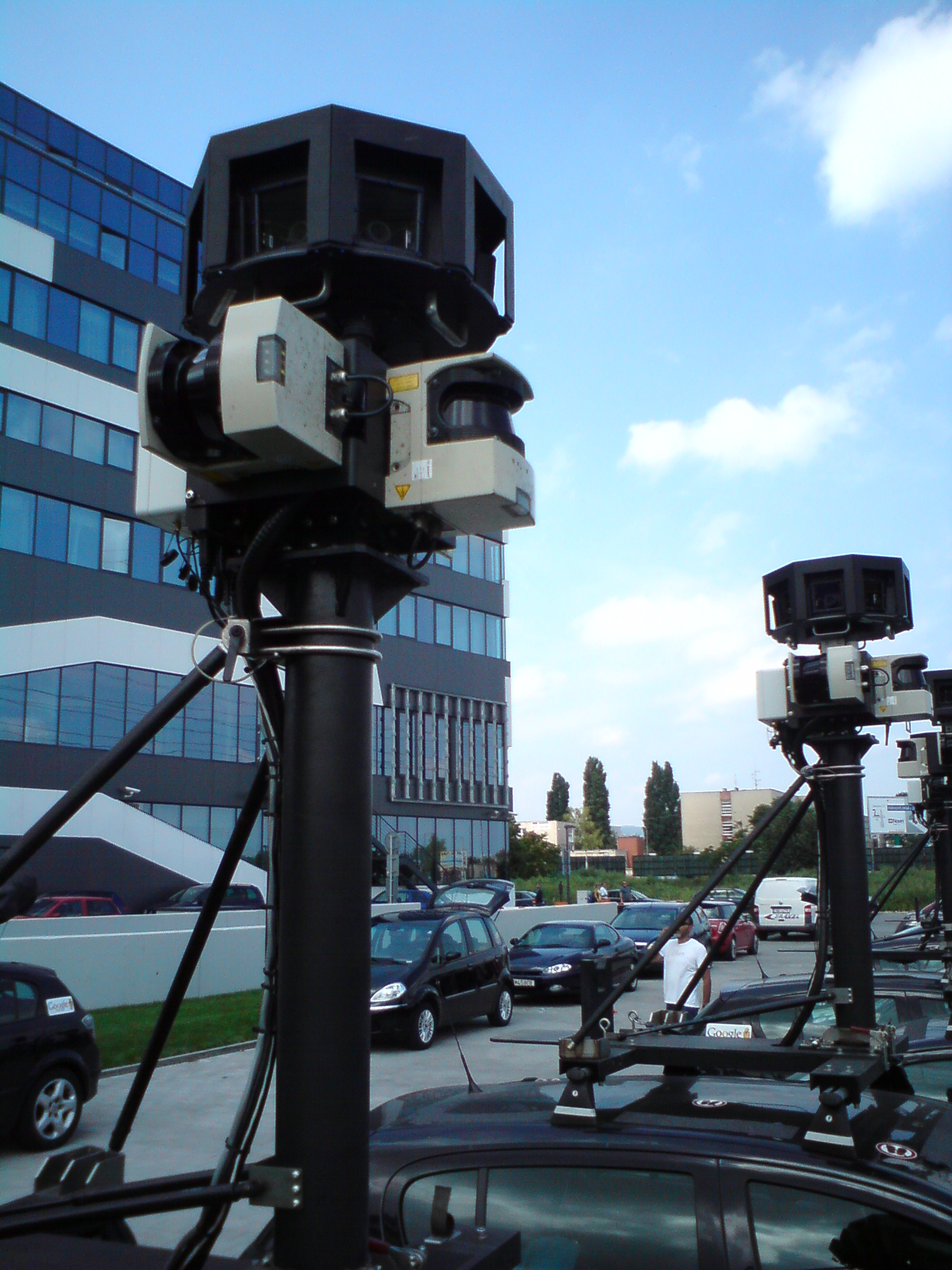 Closeup on Google Streetview camera mounted on car parking in front of Gate-One hotel in Bratislava, Slovakia